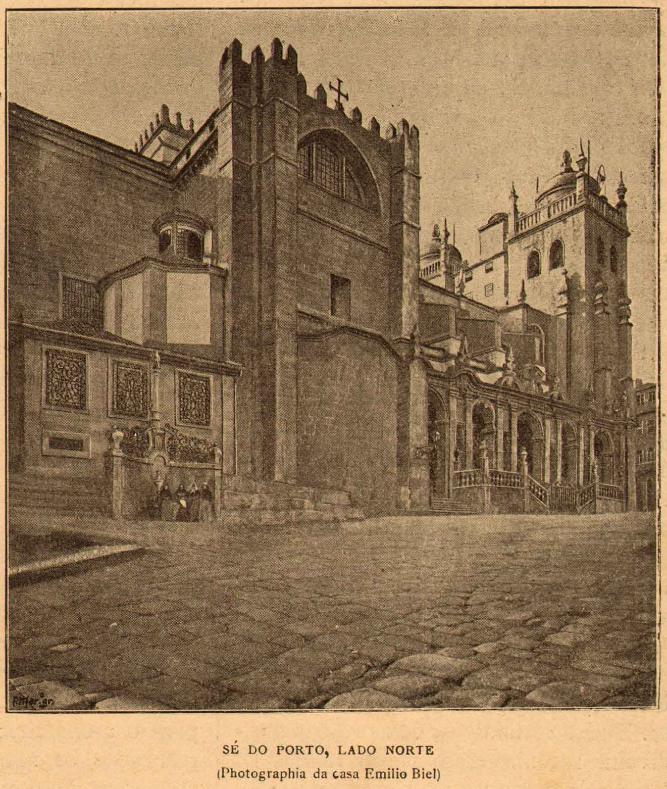 Illustration by Alfredo Roque Gameiro in the book História de Portugal, popular e ilustrada, by Manuel Pinheiro Chagas